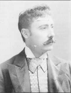 Photograph of Francis Grierson (1848-1929), originally published by Abraham Lincoln Presidential Library. Date of work estimated based on apparent biological age and fashion of the times. Grierson's appearance is described as "aged, with white hair, a toupet, and rouged cheeks" in 1913. (See Article on WP)